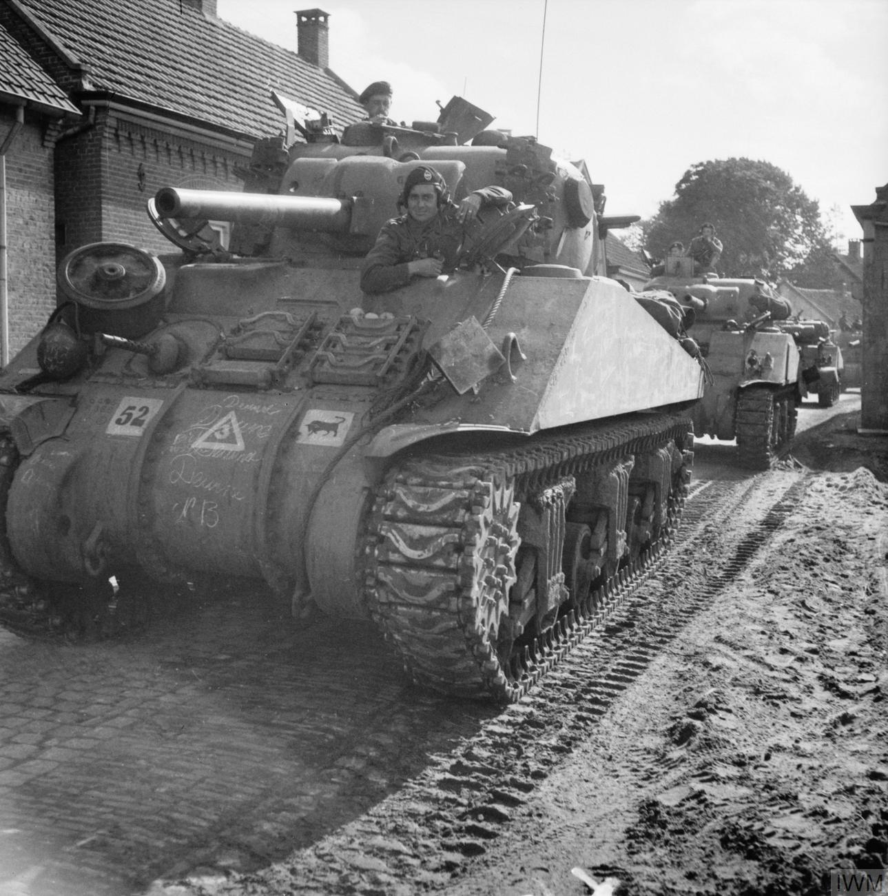 Sherman tanks of the 23rd Hussars, 11th Armoured Division, advance through Deurne, 26 September 1944. This is photograph B 10359 from the collections of the Imperial War Museums.